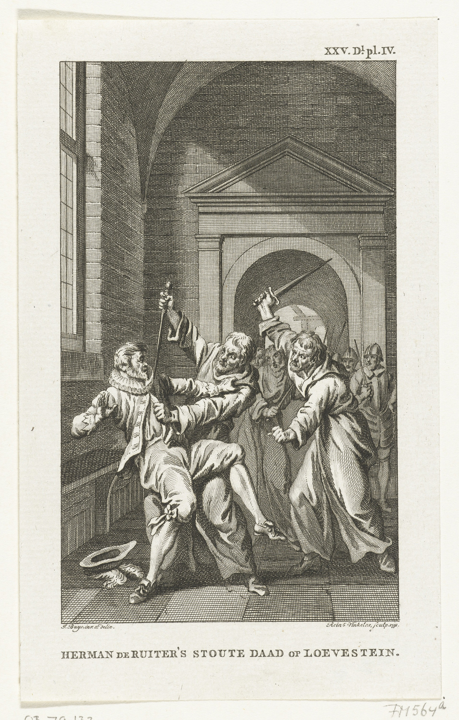 Suprise of Loevstein, Netherlands